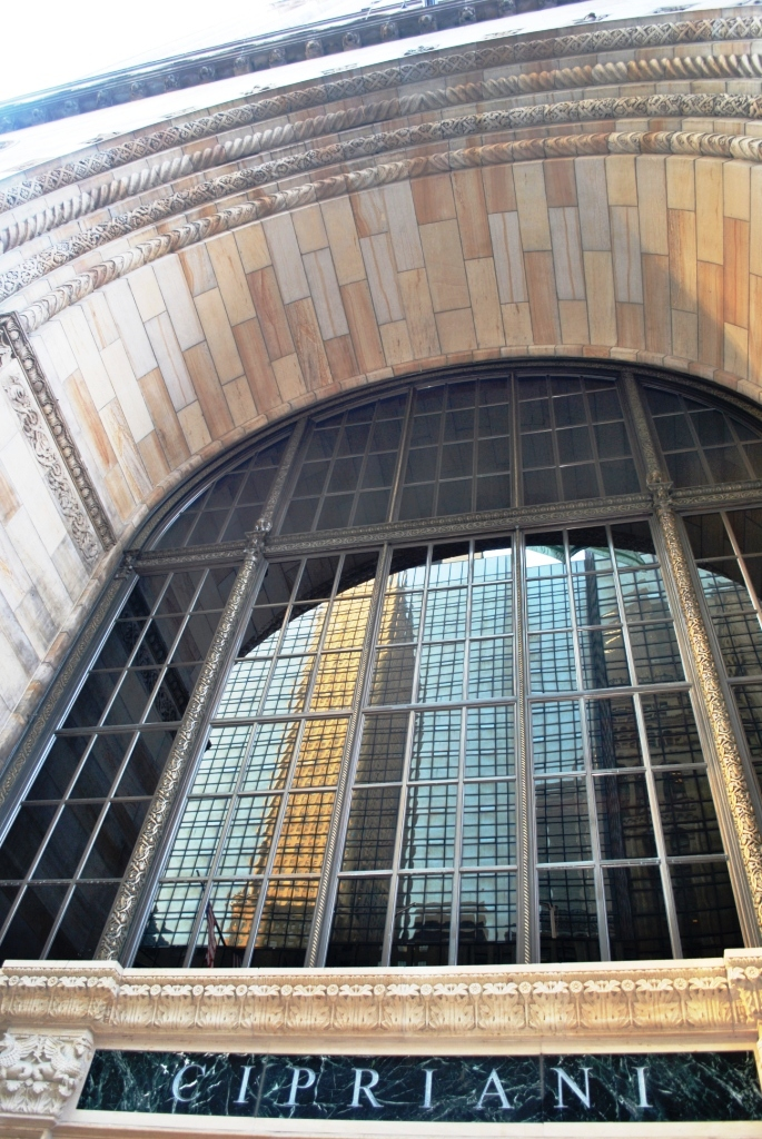 Bowery Savings Bank Building